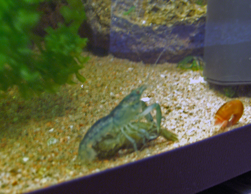 Mating pair of Mexican dwarf crayfish, Cambarellus patzcuarensis. Male on top.